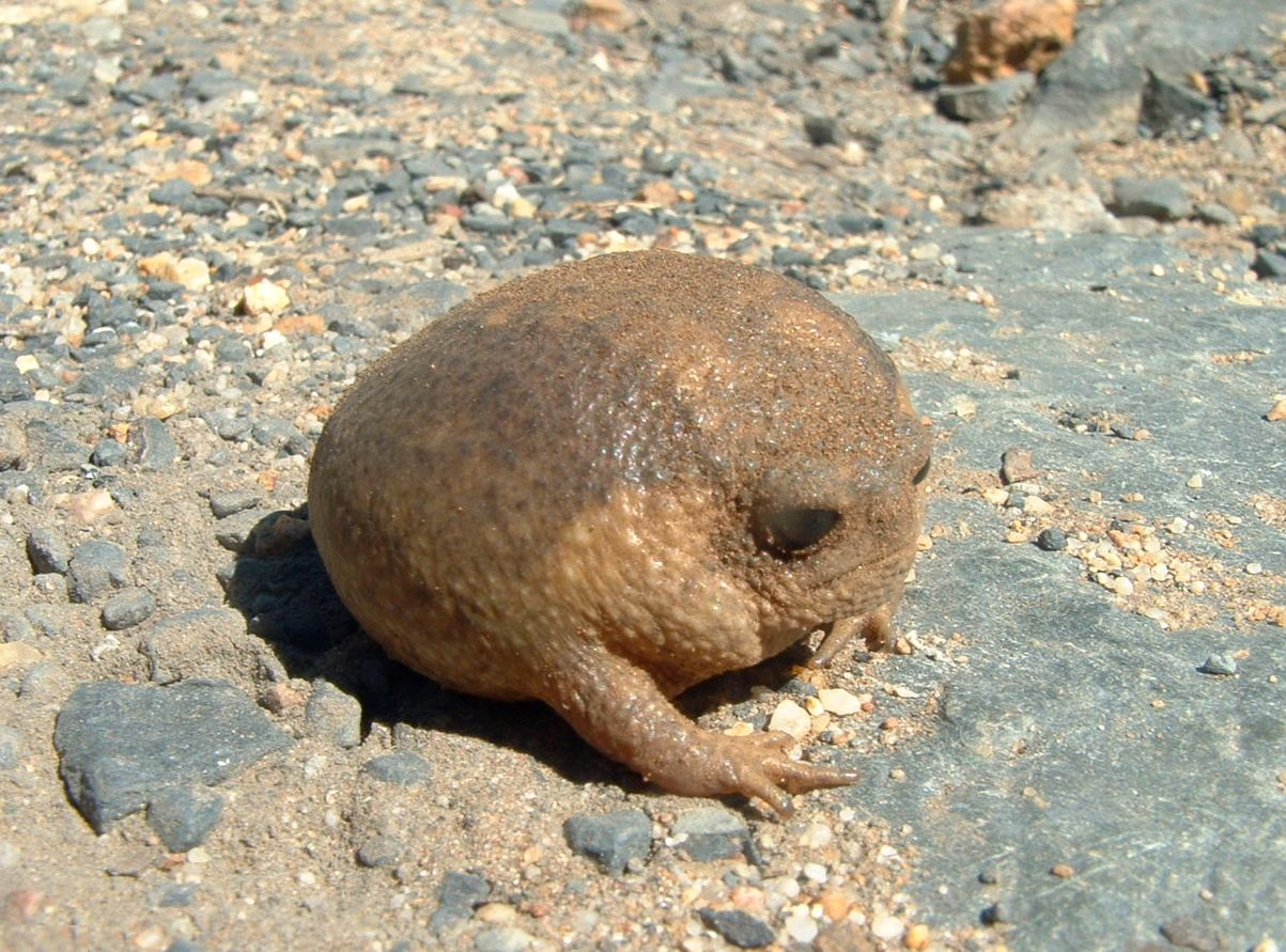 Breviceps gibbosus. The Cape Rain Frog. South Africa.